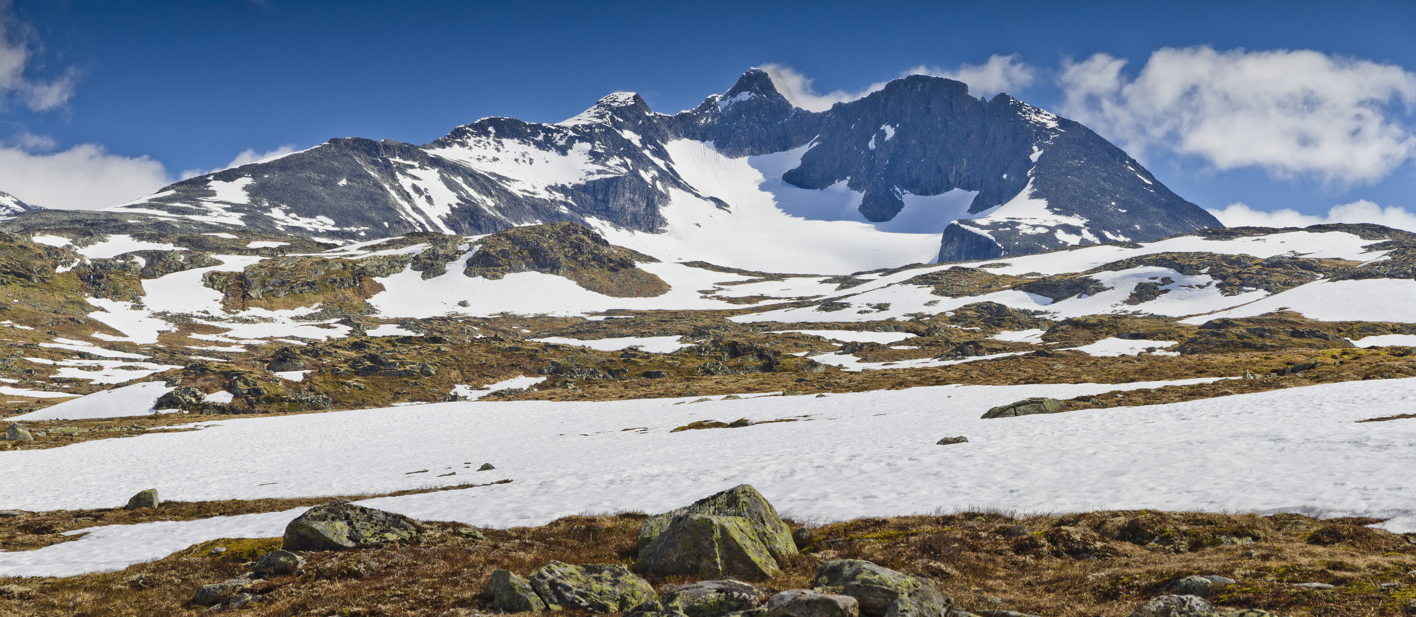 A view to Austanbotntindane from the southwest in Årdal municipality, Sogn og Fjordane, Norway in 2013 June. Austanbotntindane is part of the larger Hurrungane mountain range.